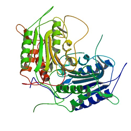 Structure of the Spodoptera frugiperda protein Sf caspase-1 (uncleaved proenzyme form)